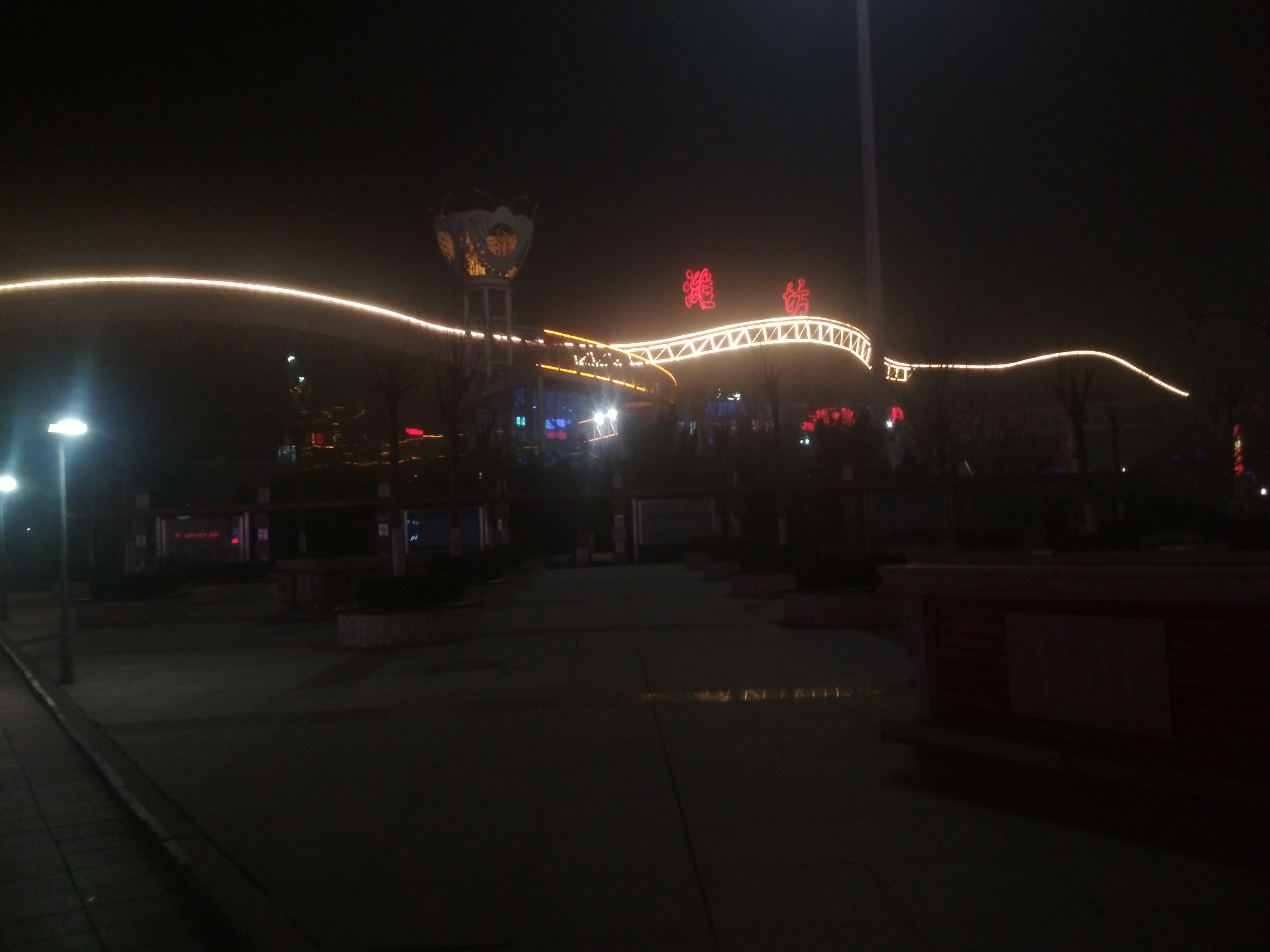 中文（中国大陆）: Weifang Railway Station_夜景